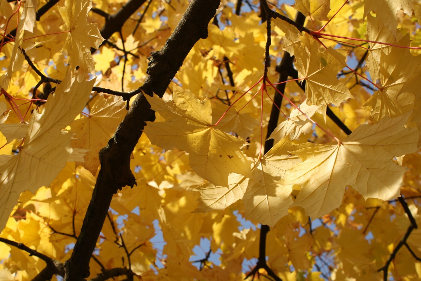 Autumn leaves in October (Europe)